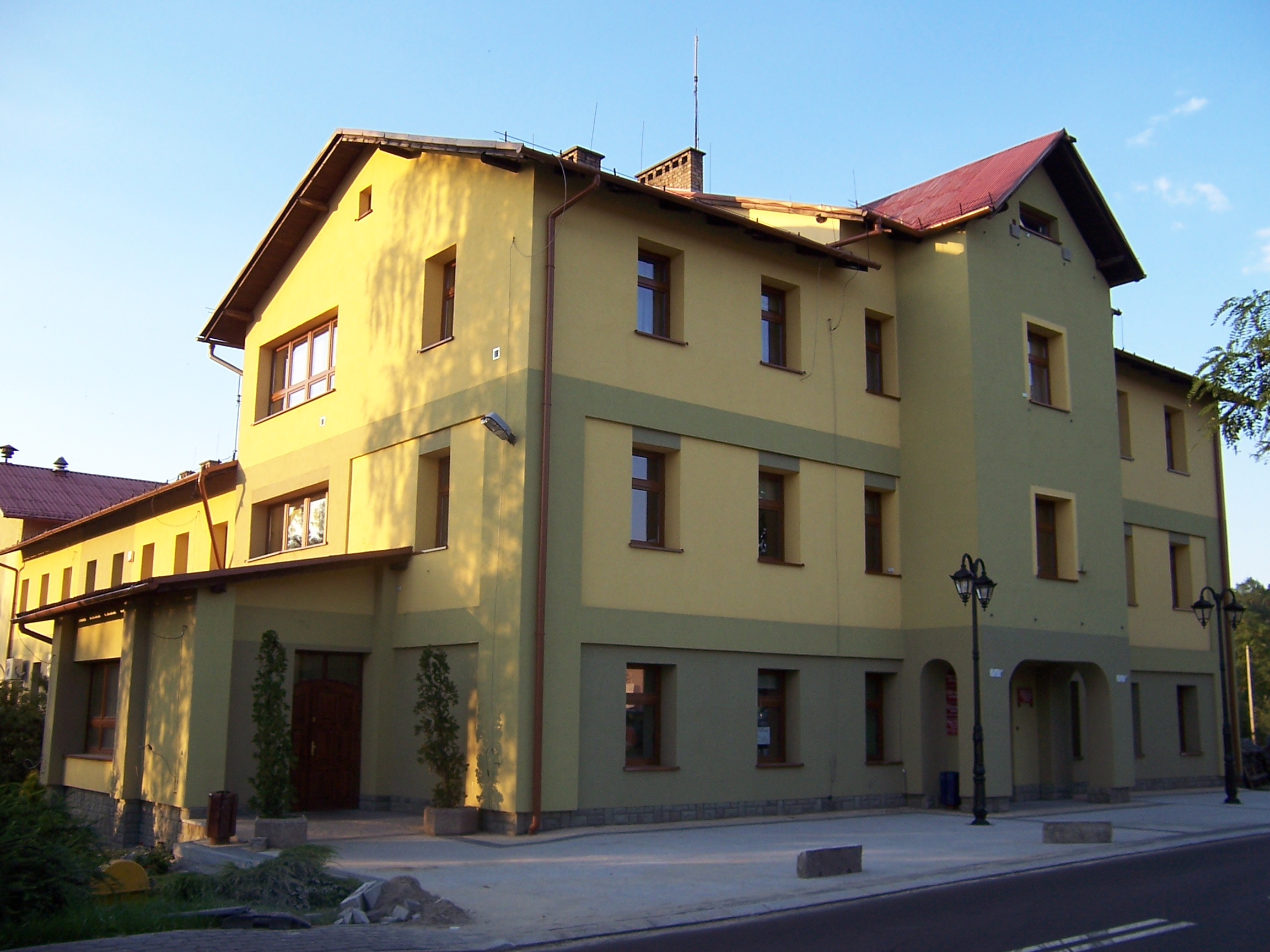 Municipal office in Jasienica